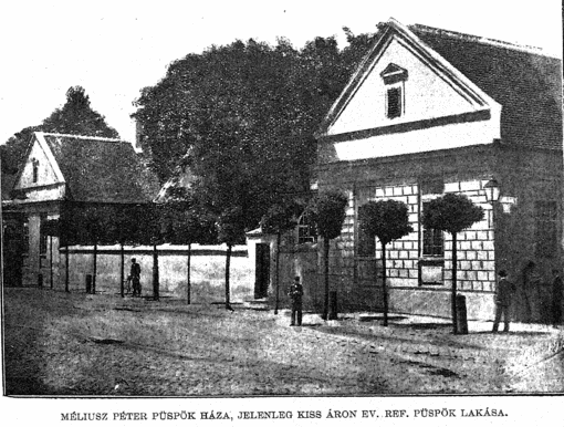 House of Méliusz Péter